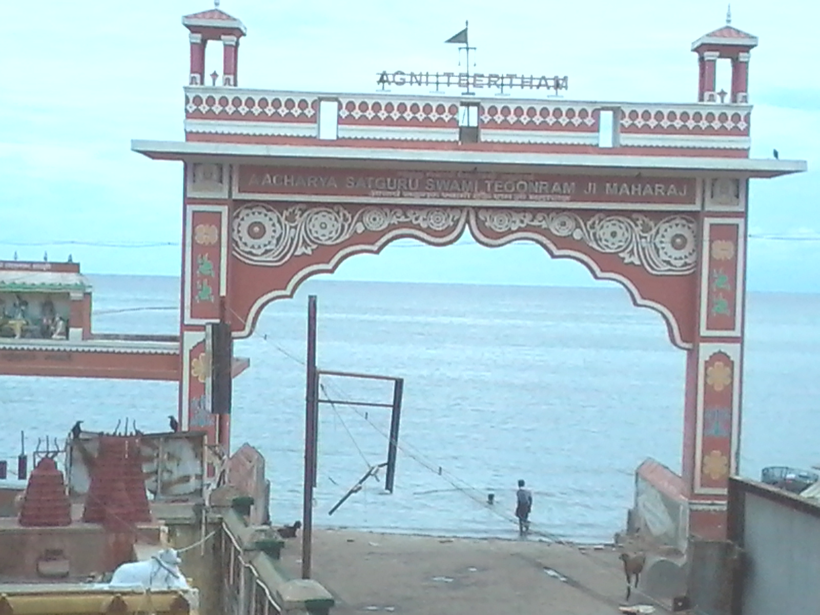 Agni theerth, Rameshwaram, Tamilnadu, India